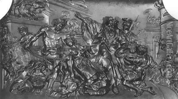 Bronze sculpture made by Nicolas-Sébastien